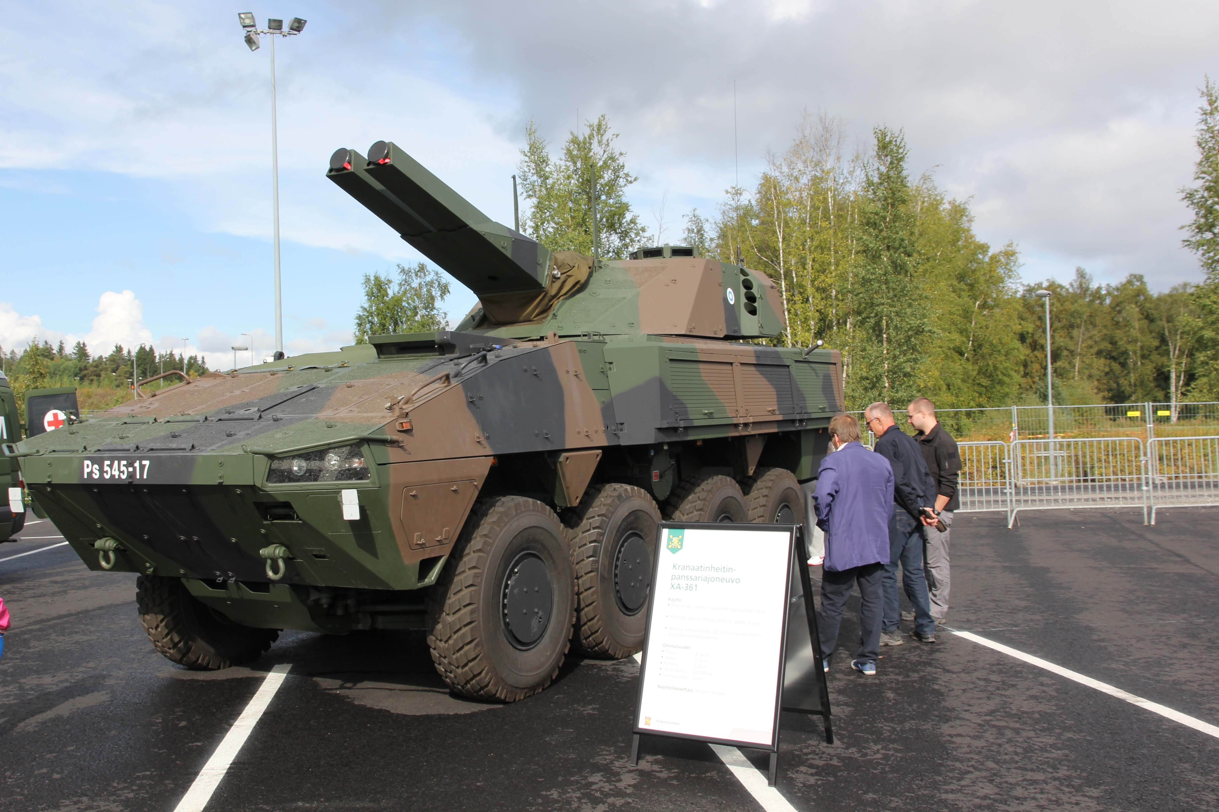 Finnish military Patria AMV XA-361 AMOS self-propelled mortar Ps 545-17 on display at Comprehensive security exhibition 2015 in Tampere.